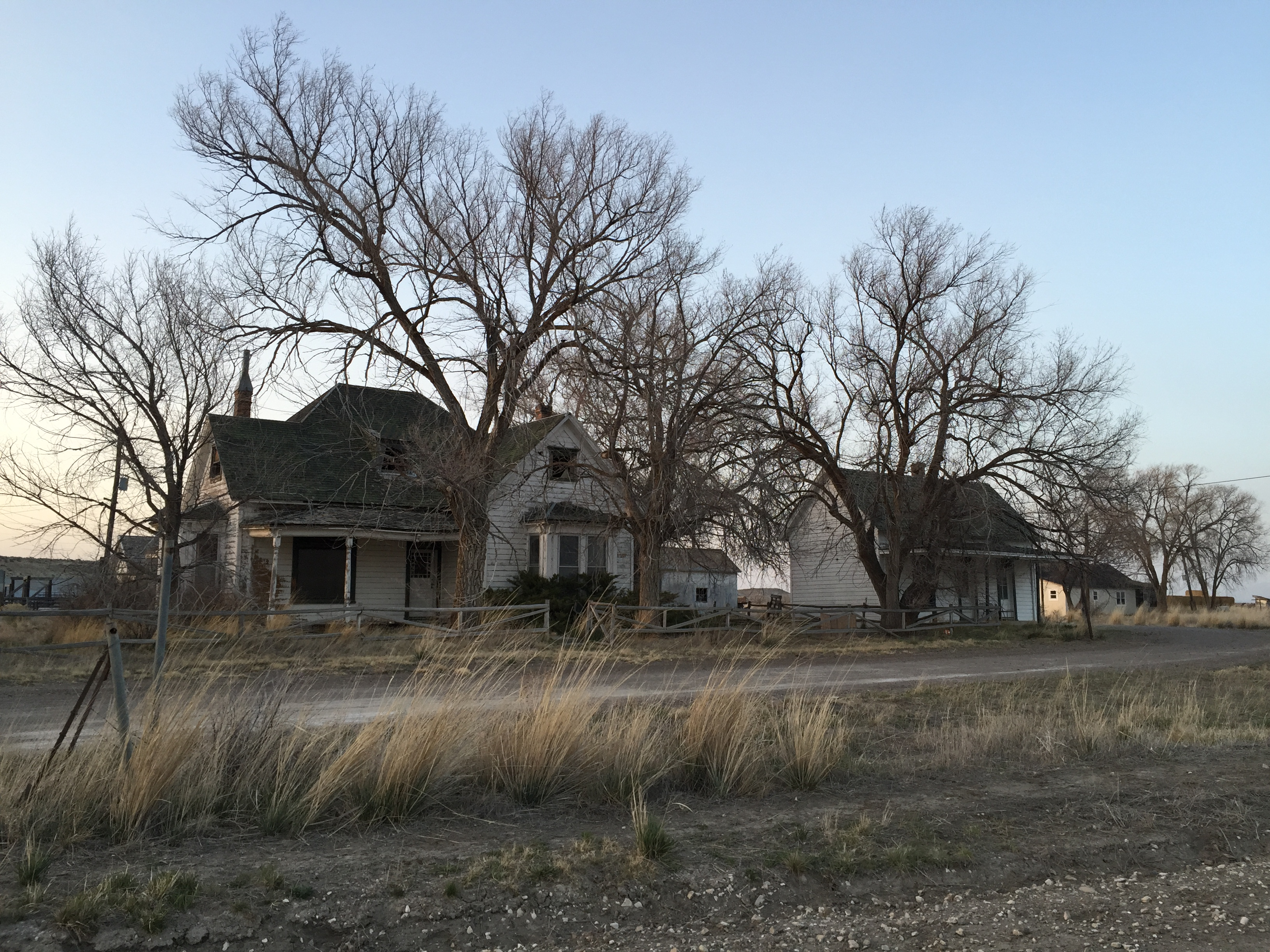 Buildings along Deeth‐O'Neil Road (Elko County Route 753) in Deeth, Nevada